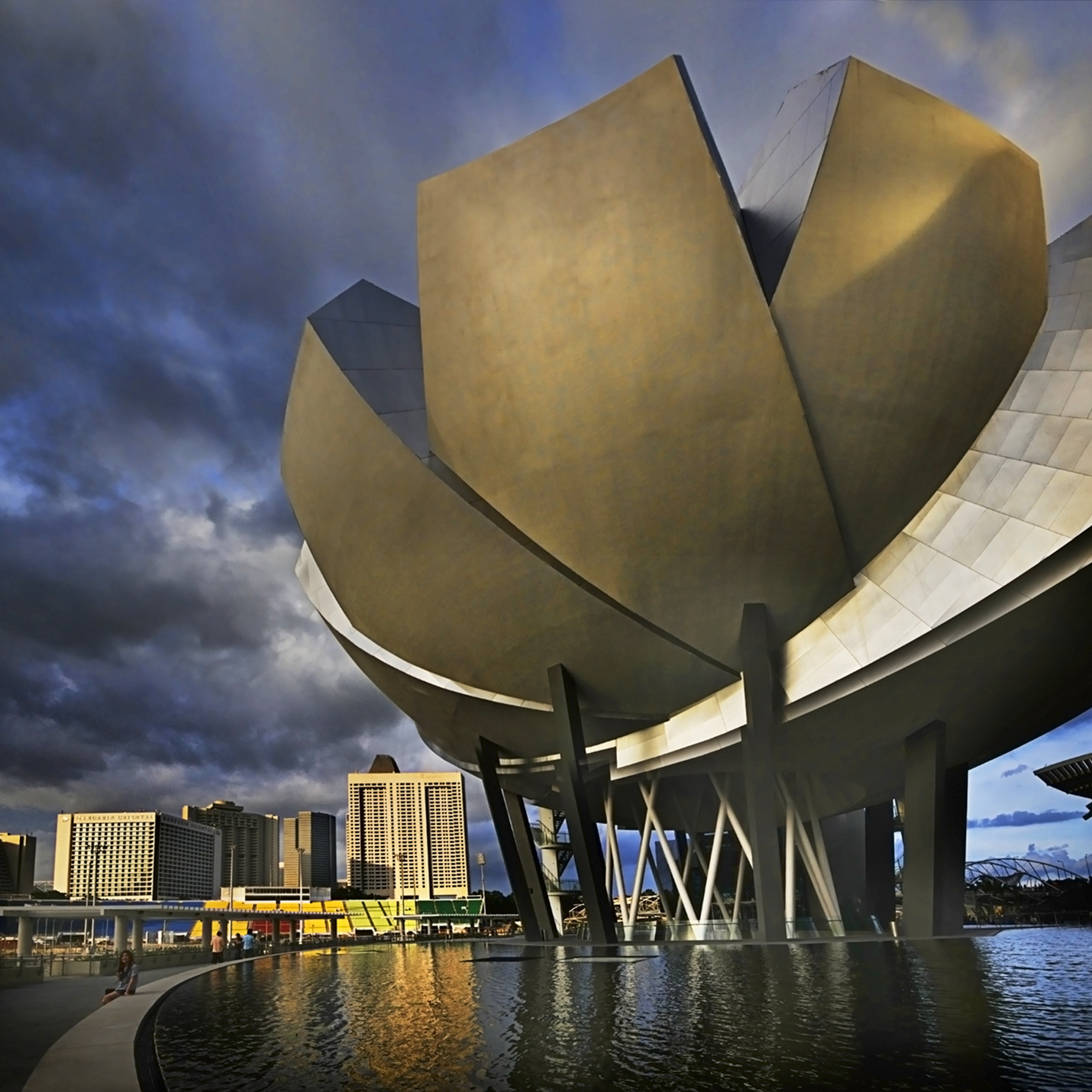 The ArtScience Museum opens... Embracing a spectrum of influences from art & science, to media & technology, to design & architecture, The ArtScience Museum features over 4,600 square meters of galleries to inspire visitors of all ages, walks of life and from shores near and far. View the Slideshow on ArtScience Museum_in Flickr